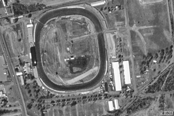 USGS aerial photo of the Flemington Speedway